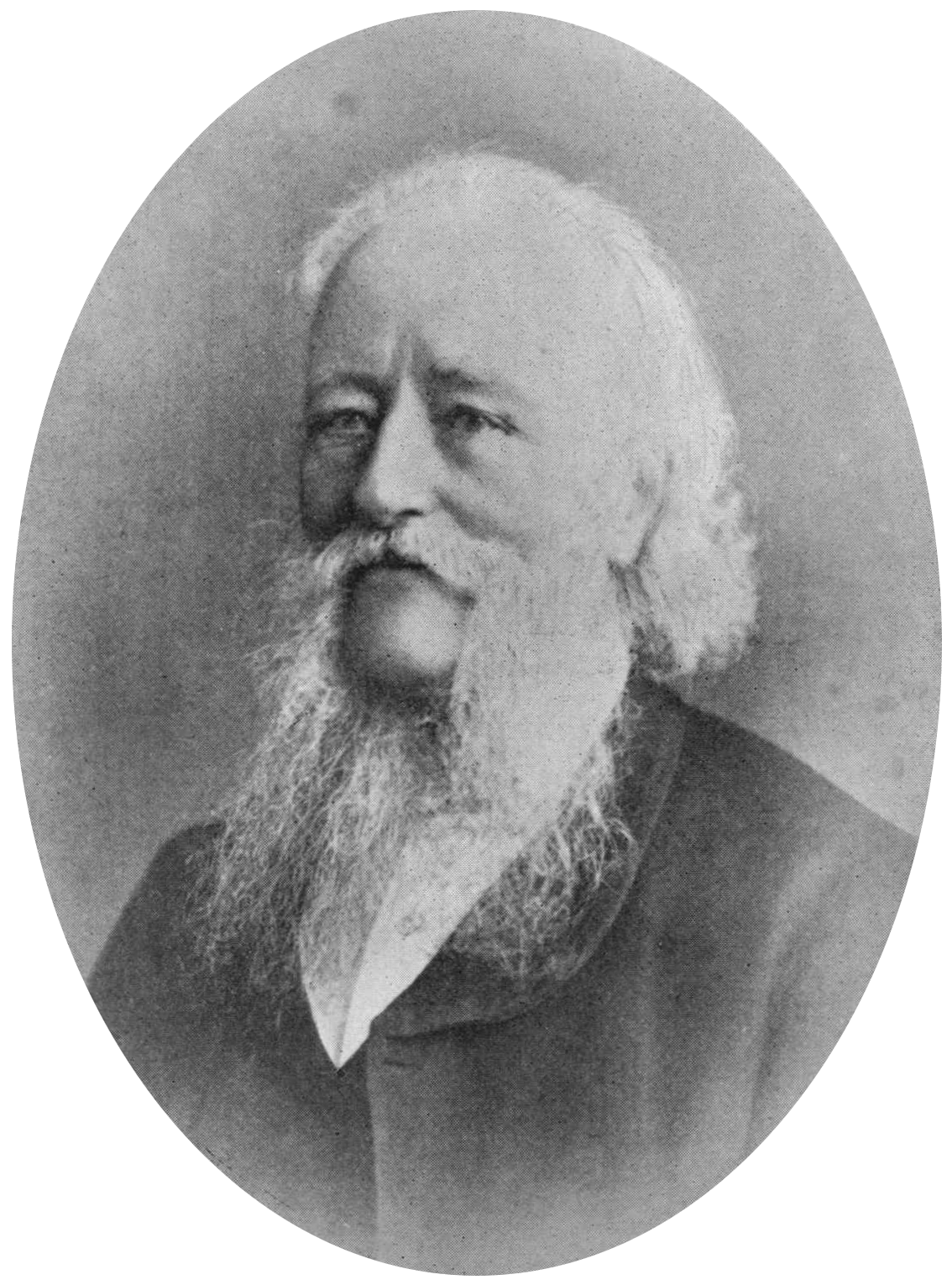 William Colenso (1811-1899), botanist & missionary to New Zealand.